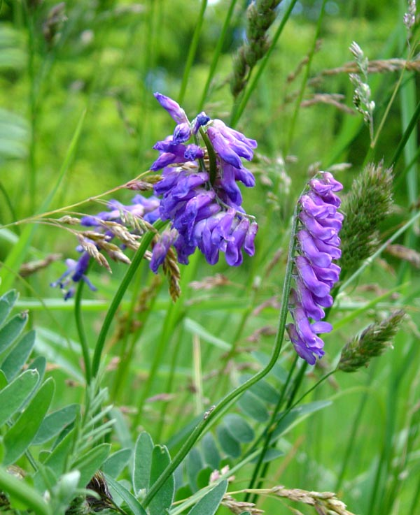 Close-up of a Cow Vetch's racemes Image by Gregory Phillips, June 2004.